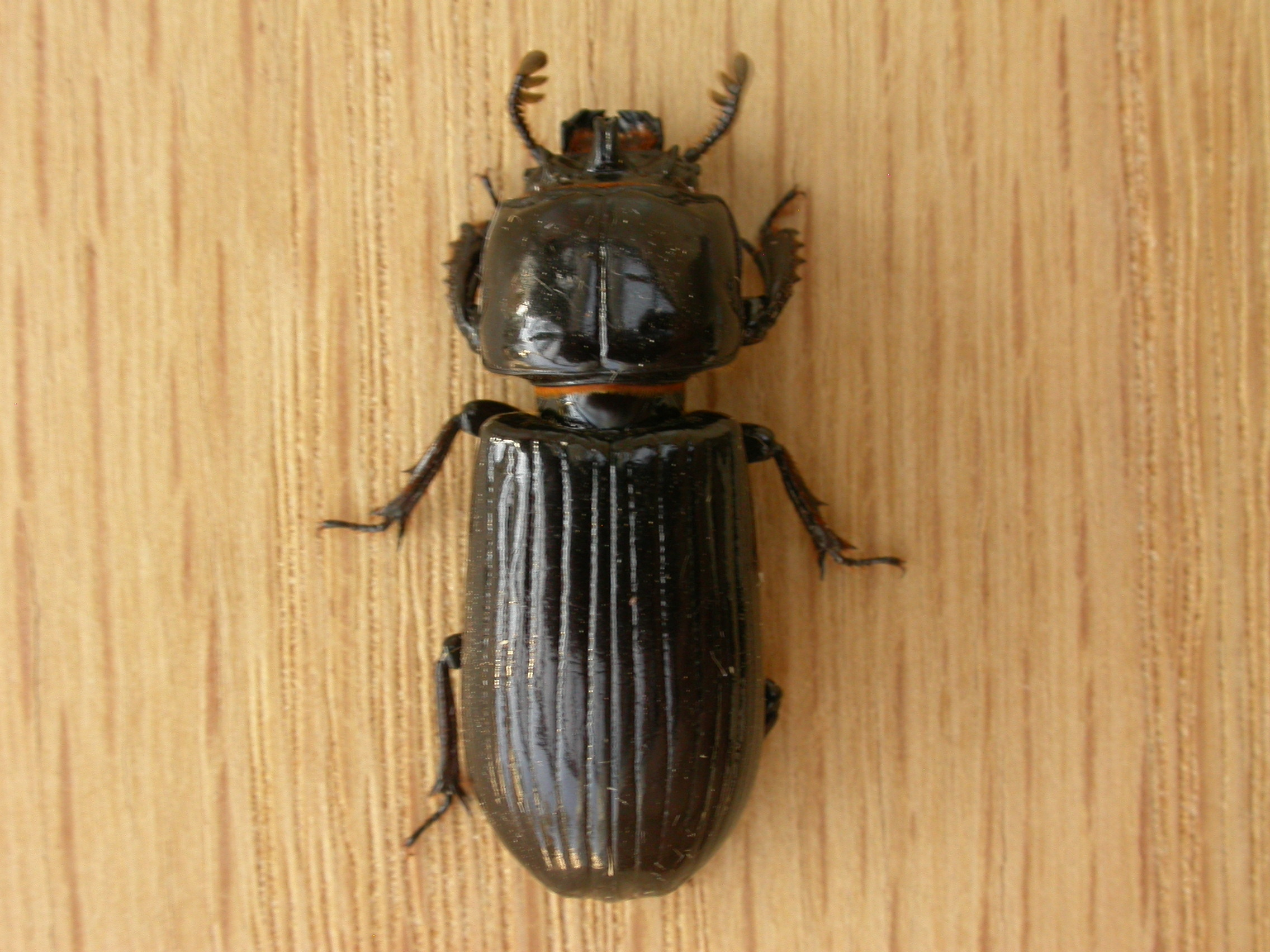 Aulacocyclus edentulus (W.S. Macleay, 1826), Aranda, ACT, 12 November 2008